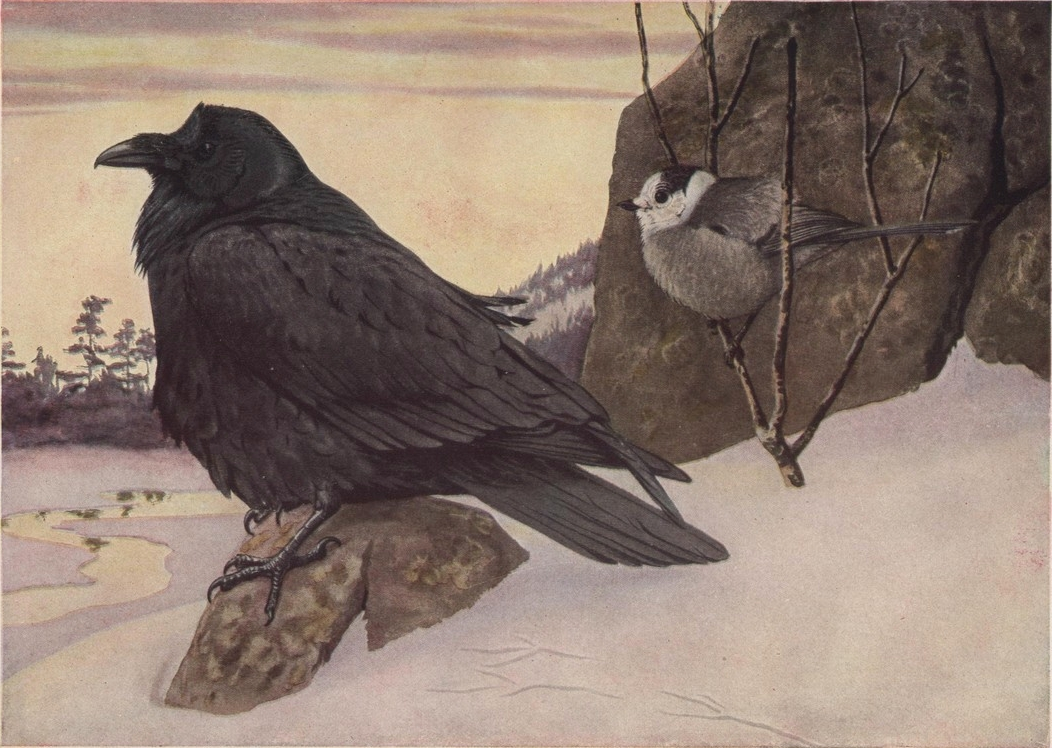 Northern Raven (Corvus corax principalis) and Grey Jay (Perisoreus canadensis canadensis)